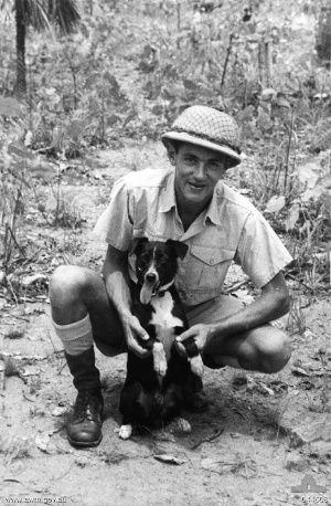 Black and white image of the dog Gunner and his handler Percy Leslie Westcott.Taken after the bombing of Darwin in February 1942.